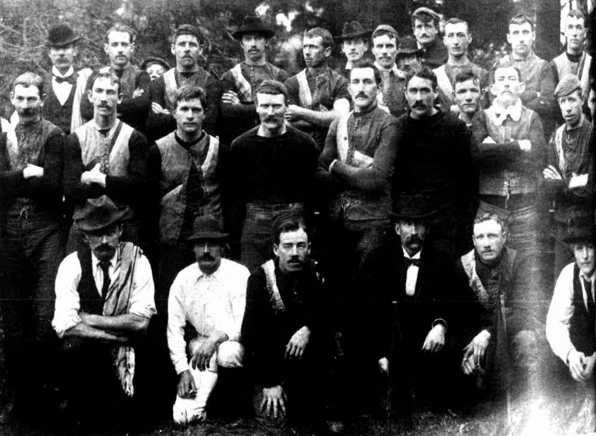 Photo of the Footscray team, premiers.